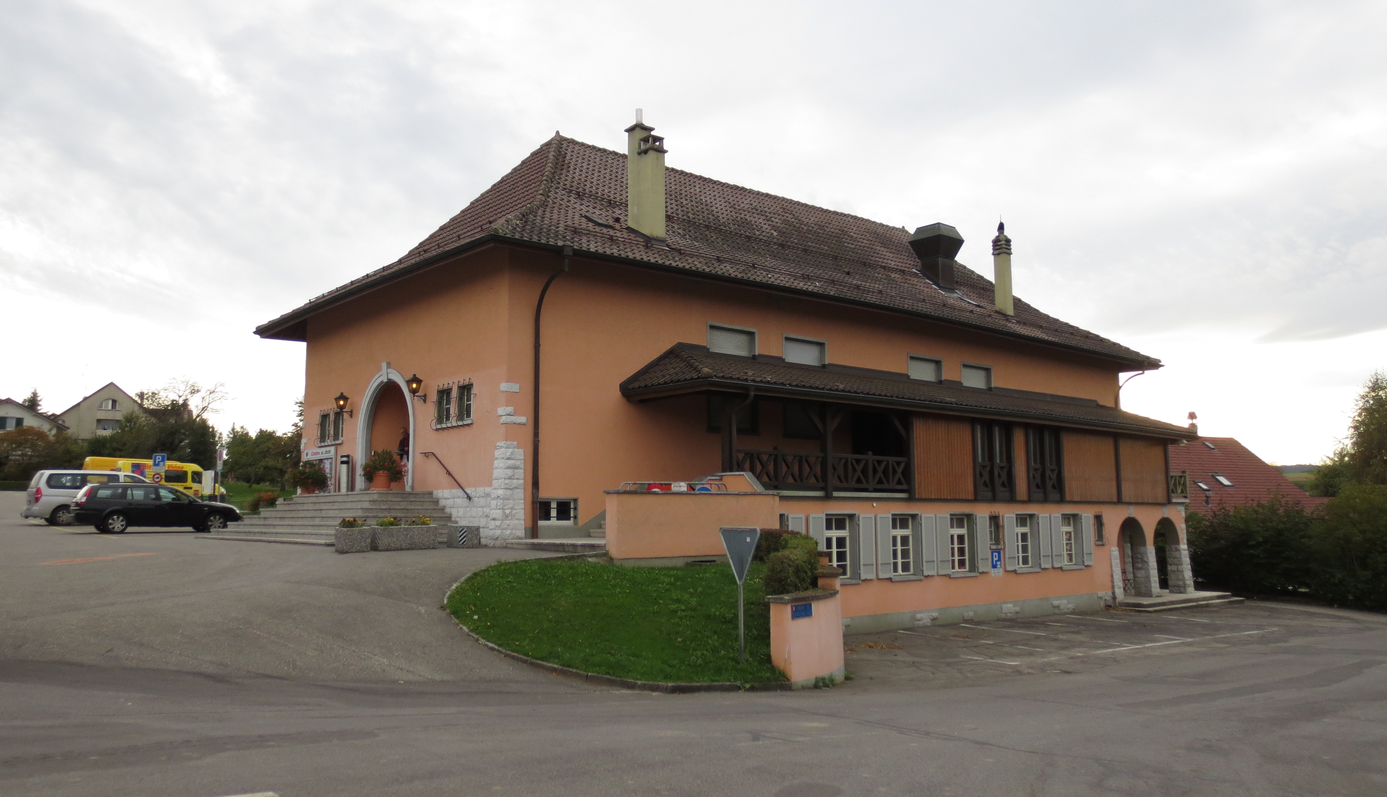 Carrouge, Canton of Vaud, Switzerland